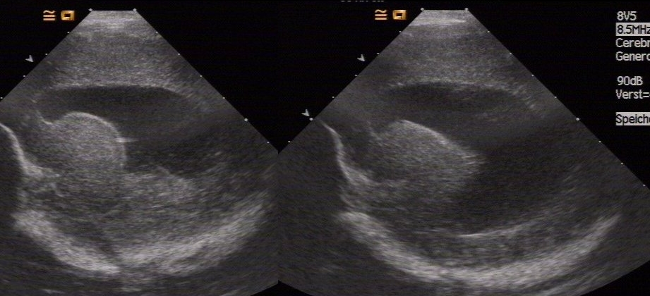 Colpocephaly in a newborn with Agenesis corporis callosum